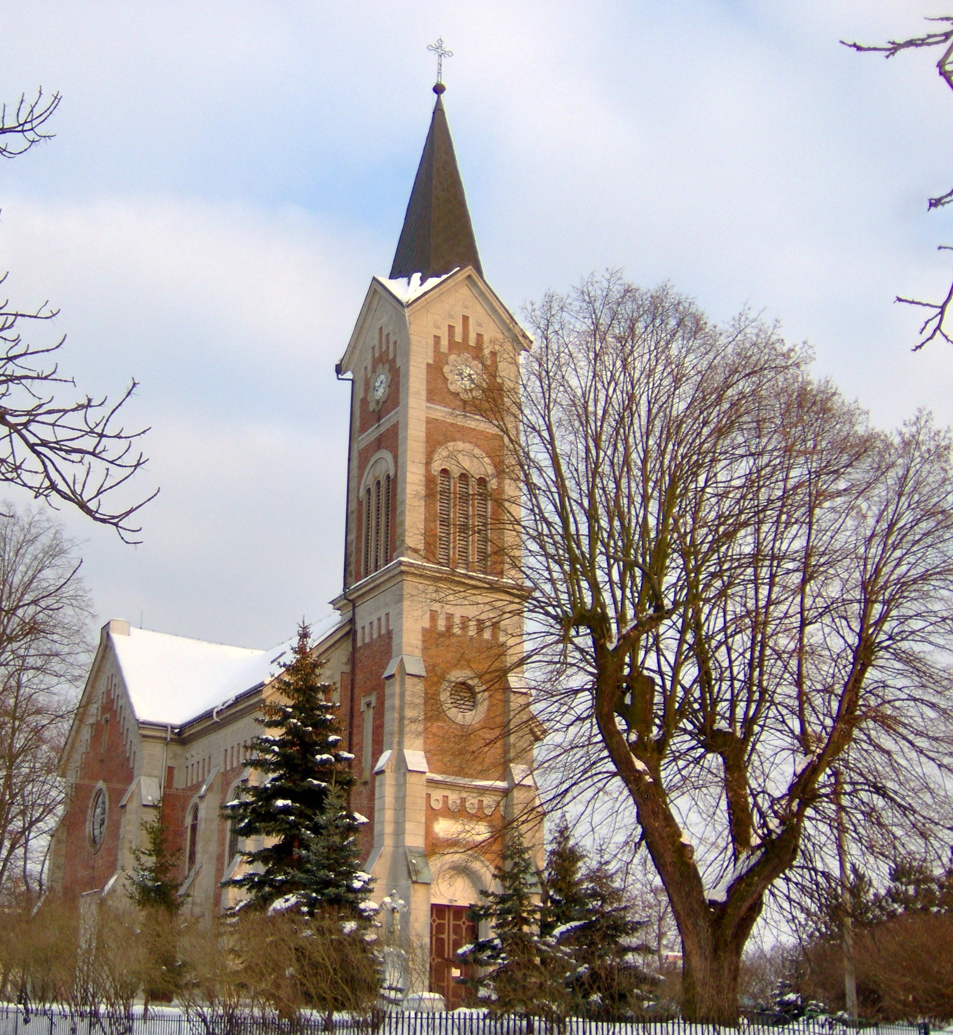 Church in Plášťovce, Slovakia